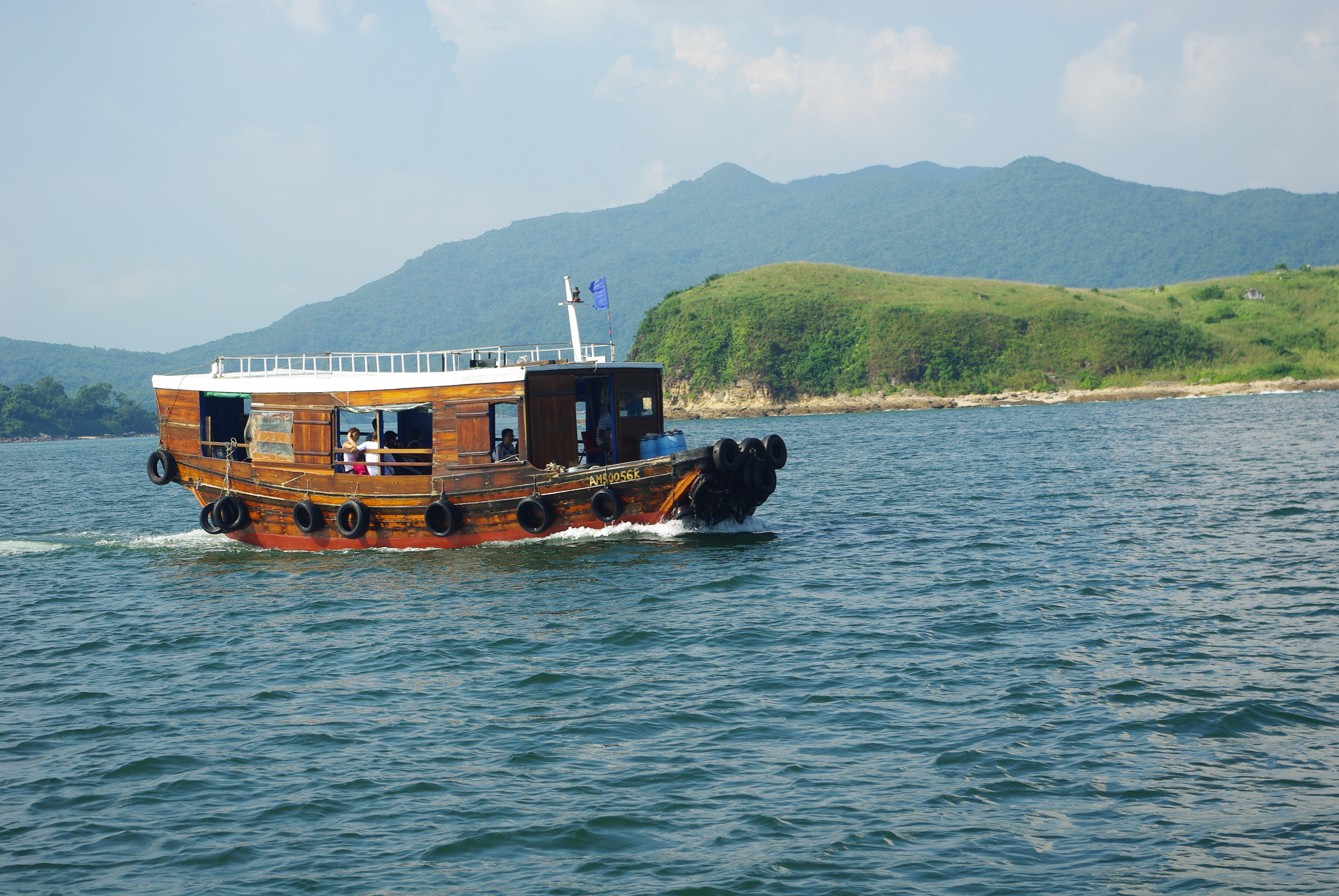 Ferry from Sai Kung to Kiu Tsui Chau (Sharp Island) in Hong-Kong